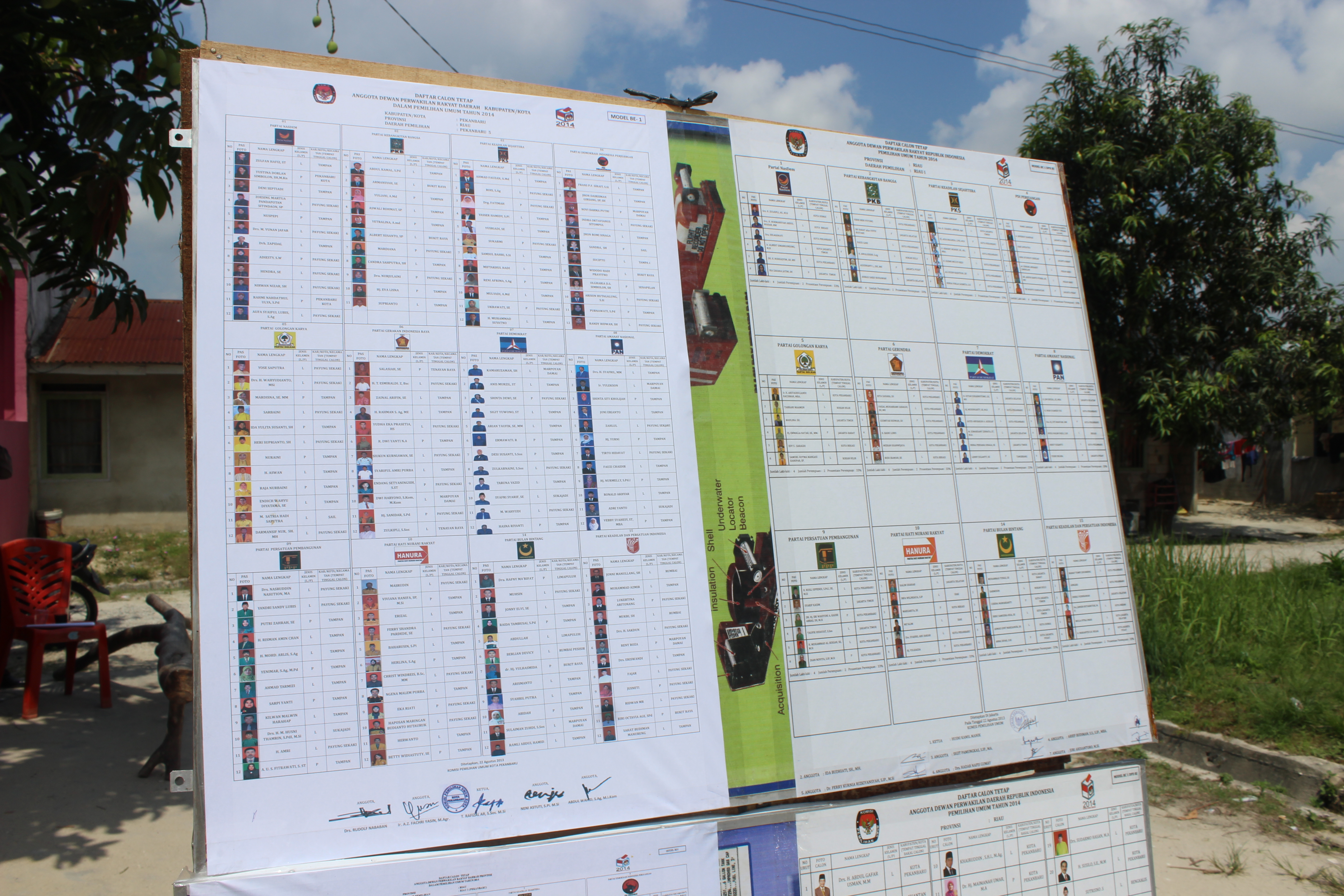 Photos and names of candidates competing for legislative seats in the Indonesian legislative election, 2014. Candidates seen here is competing for seats in Pekanbaru Regional Representative Council and the national-level People's Representative Council.